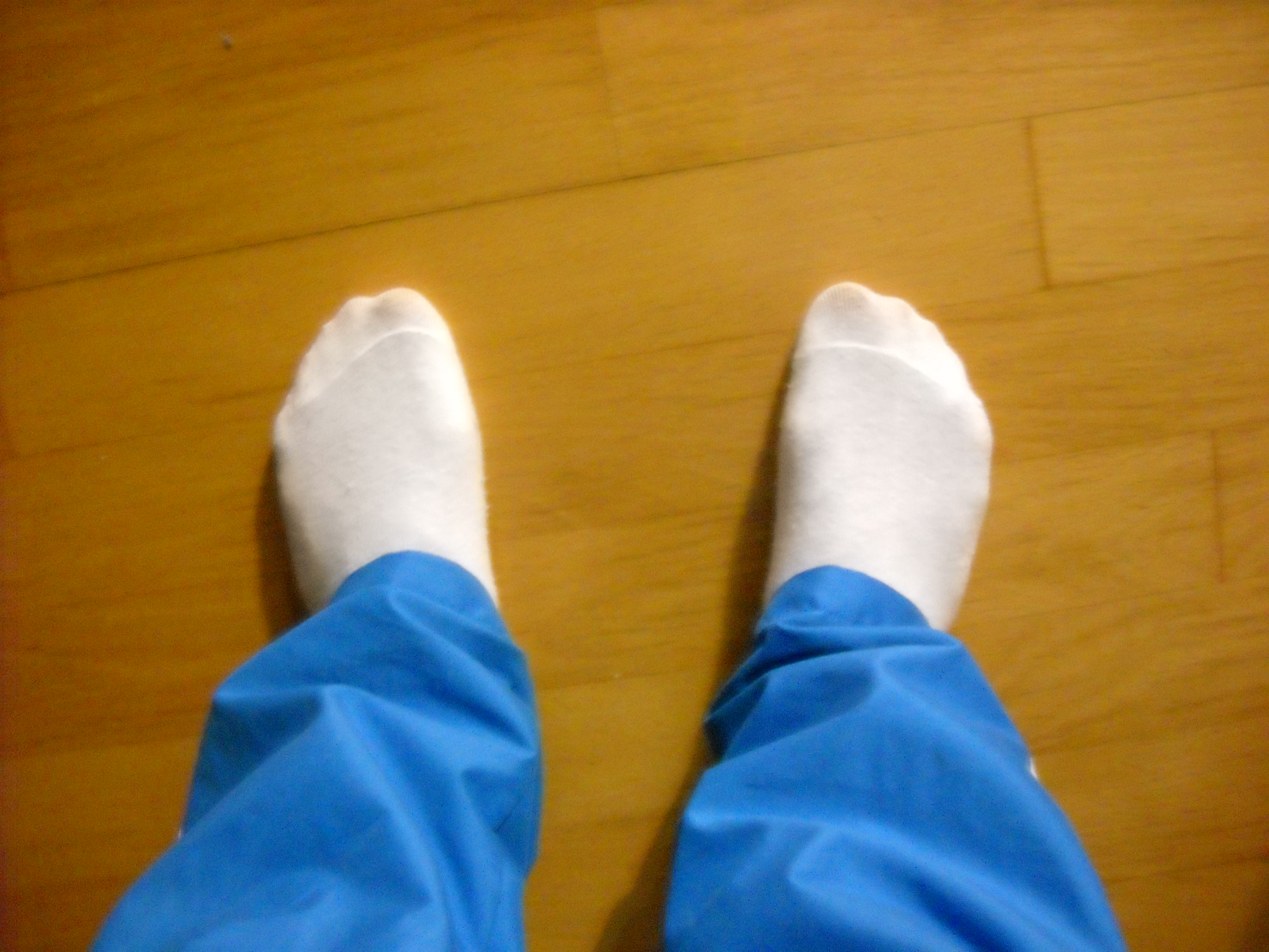 White socks